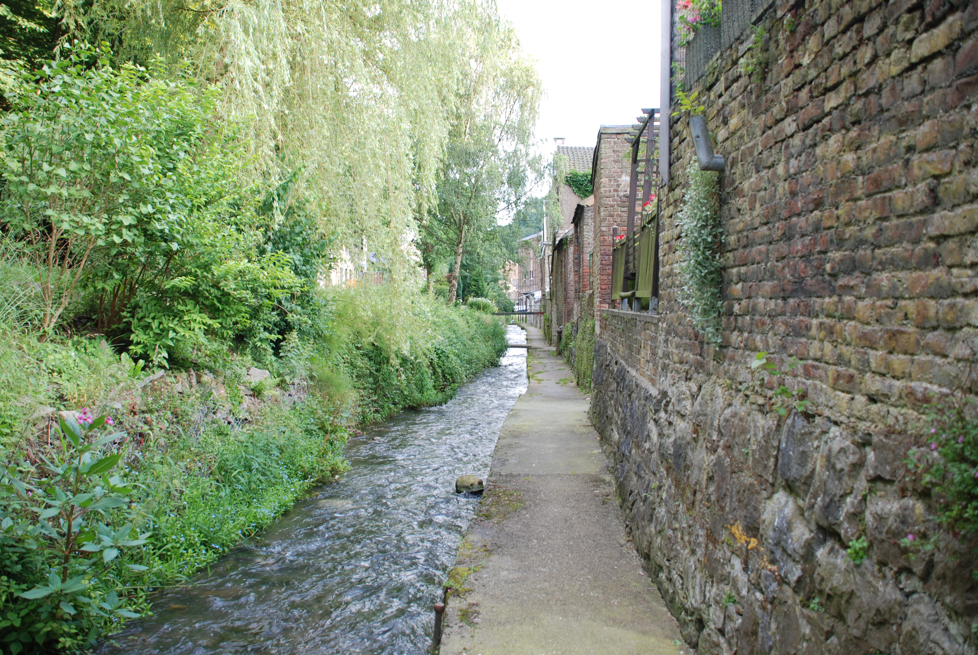 "Ry de Vaux" river crossing Nessonvaux, behind the houses of the street "Rue Large" .